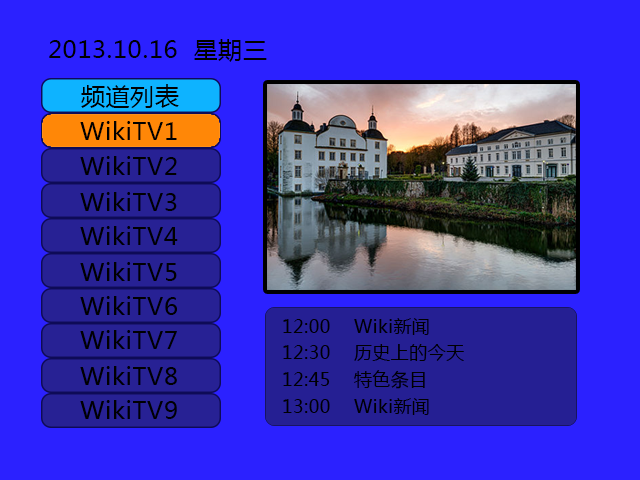 An EPG which I invented